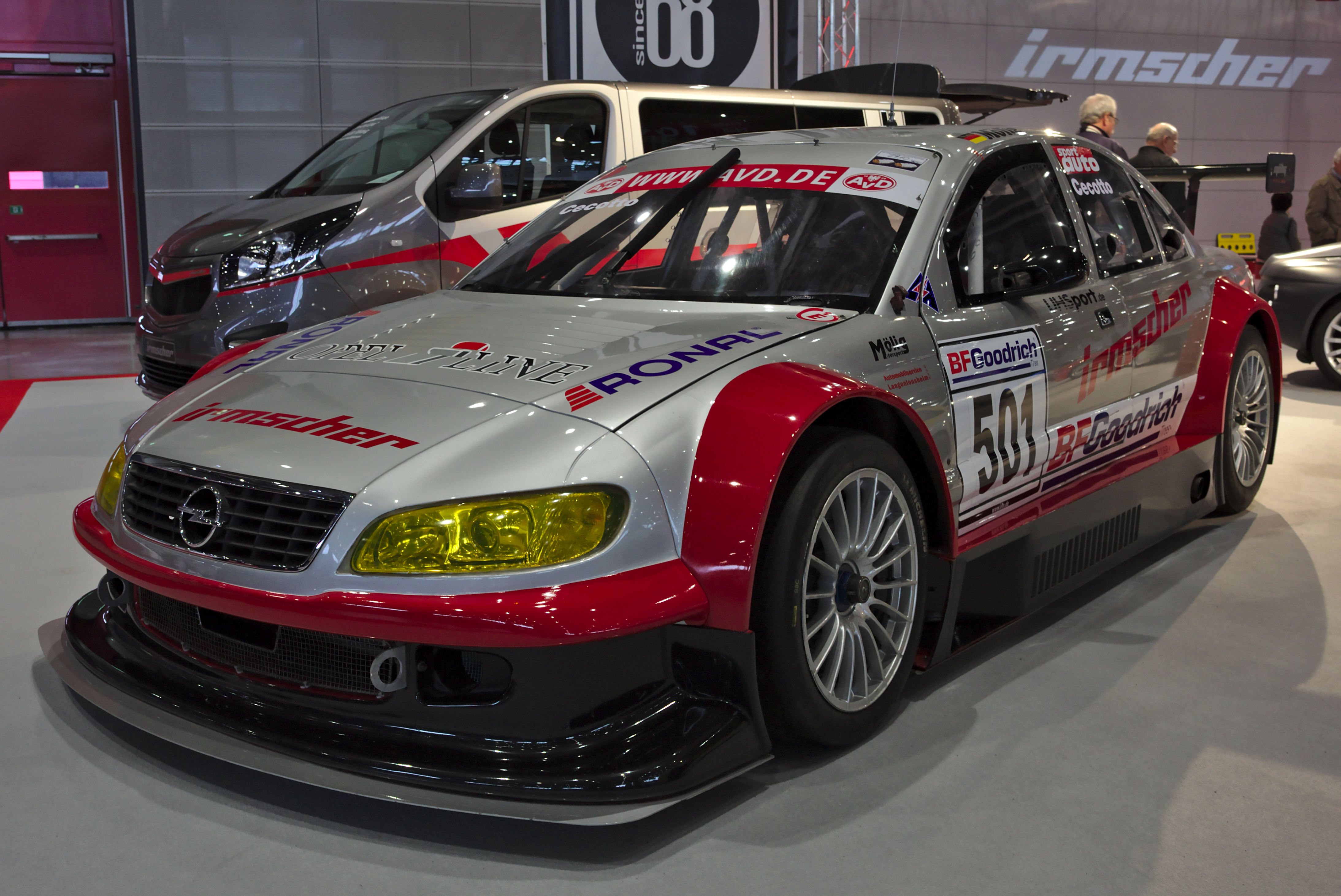 Irmscher Omega B V8 Star at Retro Classics 2018